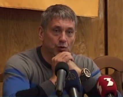 Ihor Nasalyk, Ukrainian politician, member of the Ukrainian Verkhovna Rada